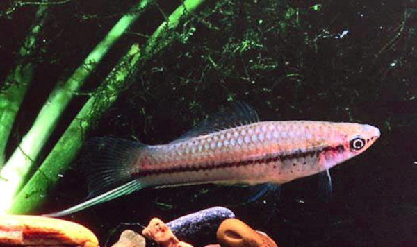 Xiphophorus helleri, wild form